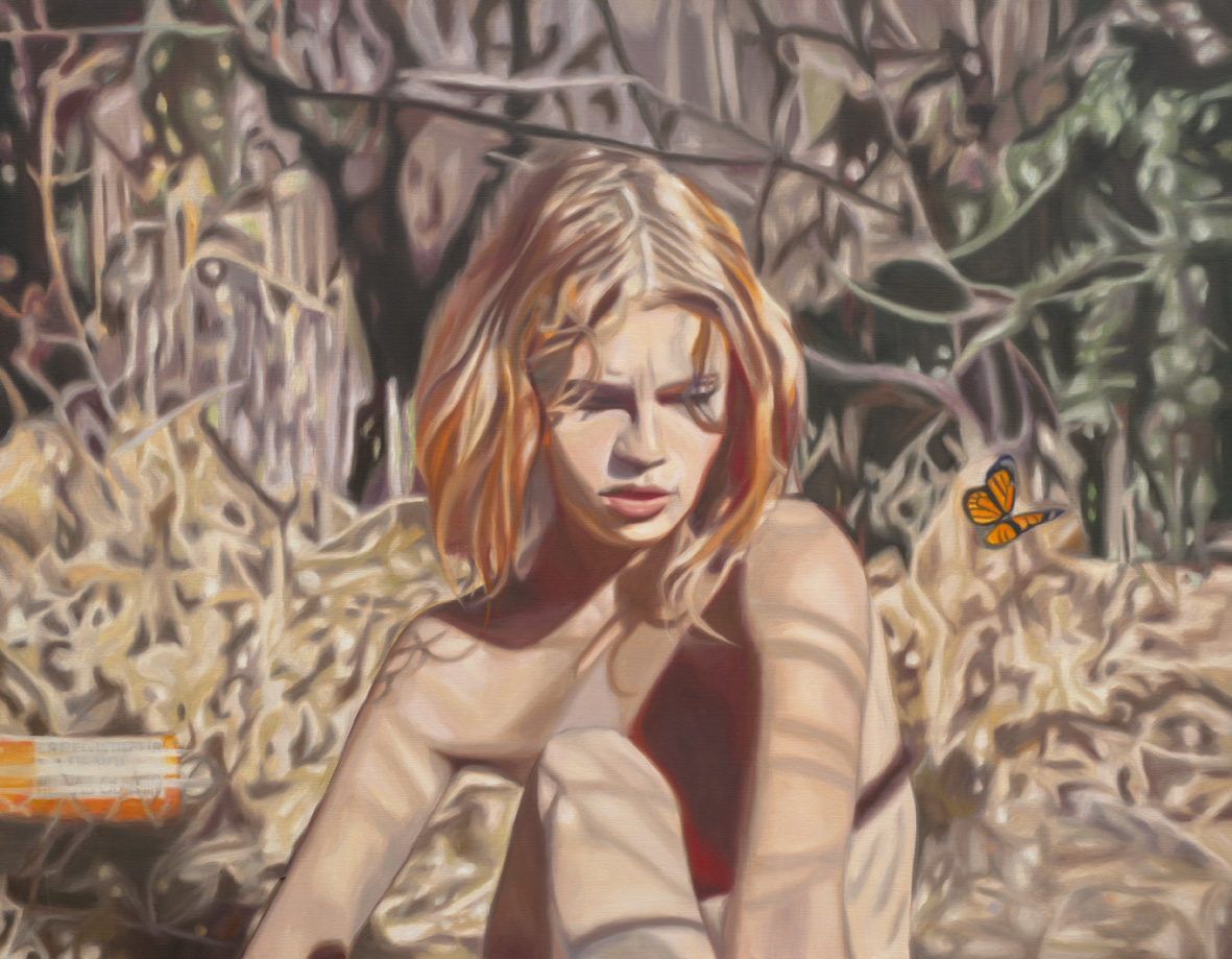 Tina, Flight Data Recorder, by Sylvester Engbrox, 2009, oil on canvas, 114 x 146 cm